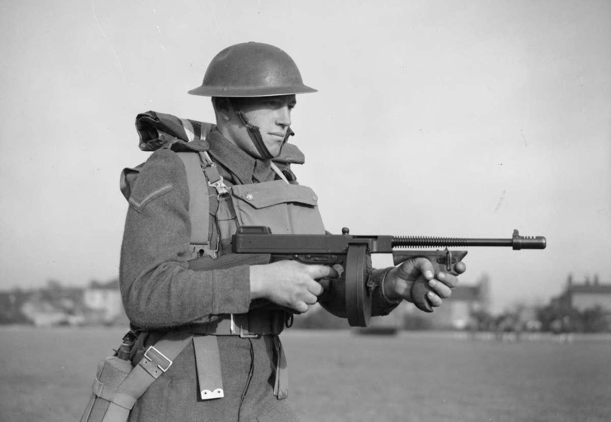 A lance-corporal of the East Surrey Regiment poses with a 'Tommy gun', Chatham in Kent, 25 November 1940.